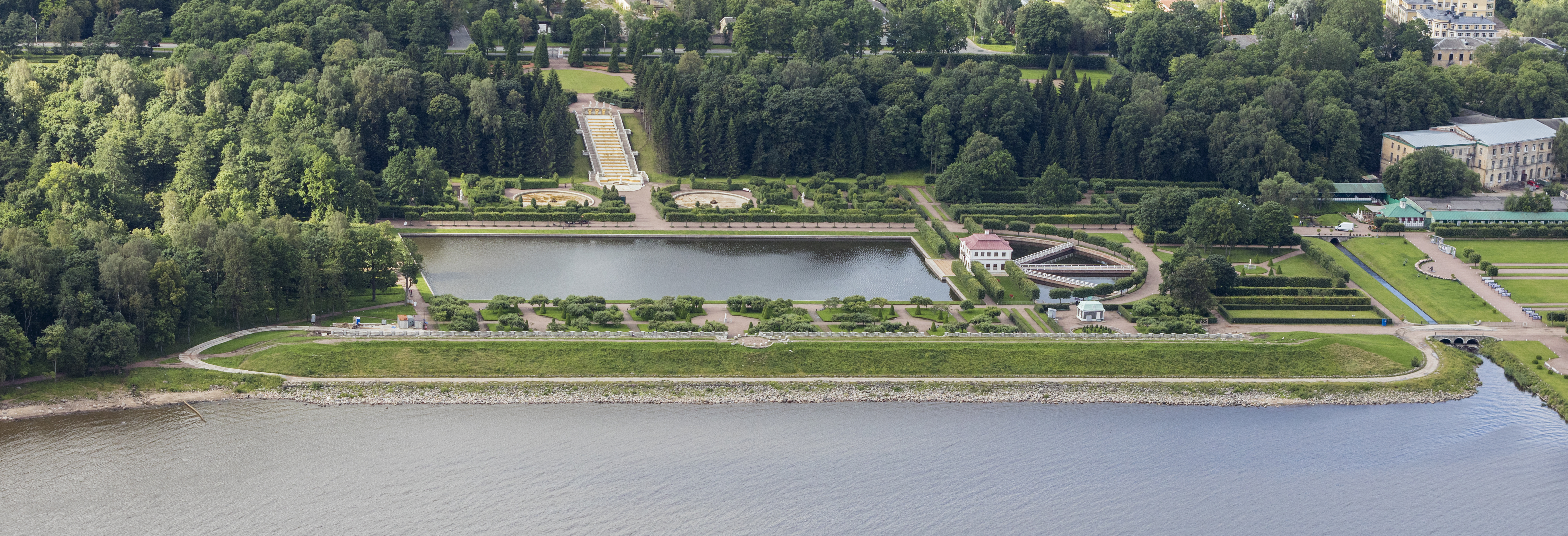 Marli Palace, in the lower park of Peterhof Palace, Petergof, Saint Petersburg, Russia.